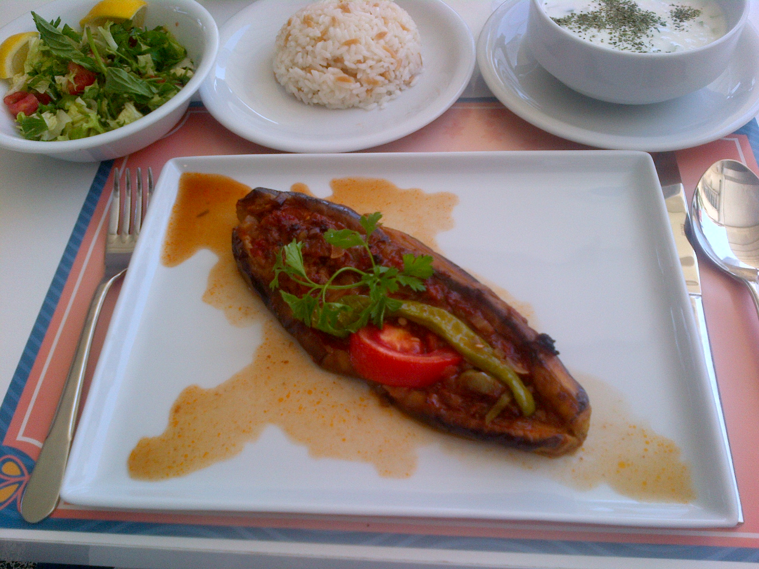 A typical summertime meal in Turkey: "Karnıyarık", Turkish piav with rice and 2 types of "şehriye" ("orzo" and pasta "capelli d'angelo"), "cacık" and a small salad for one.